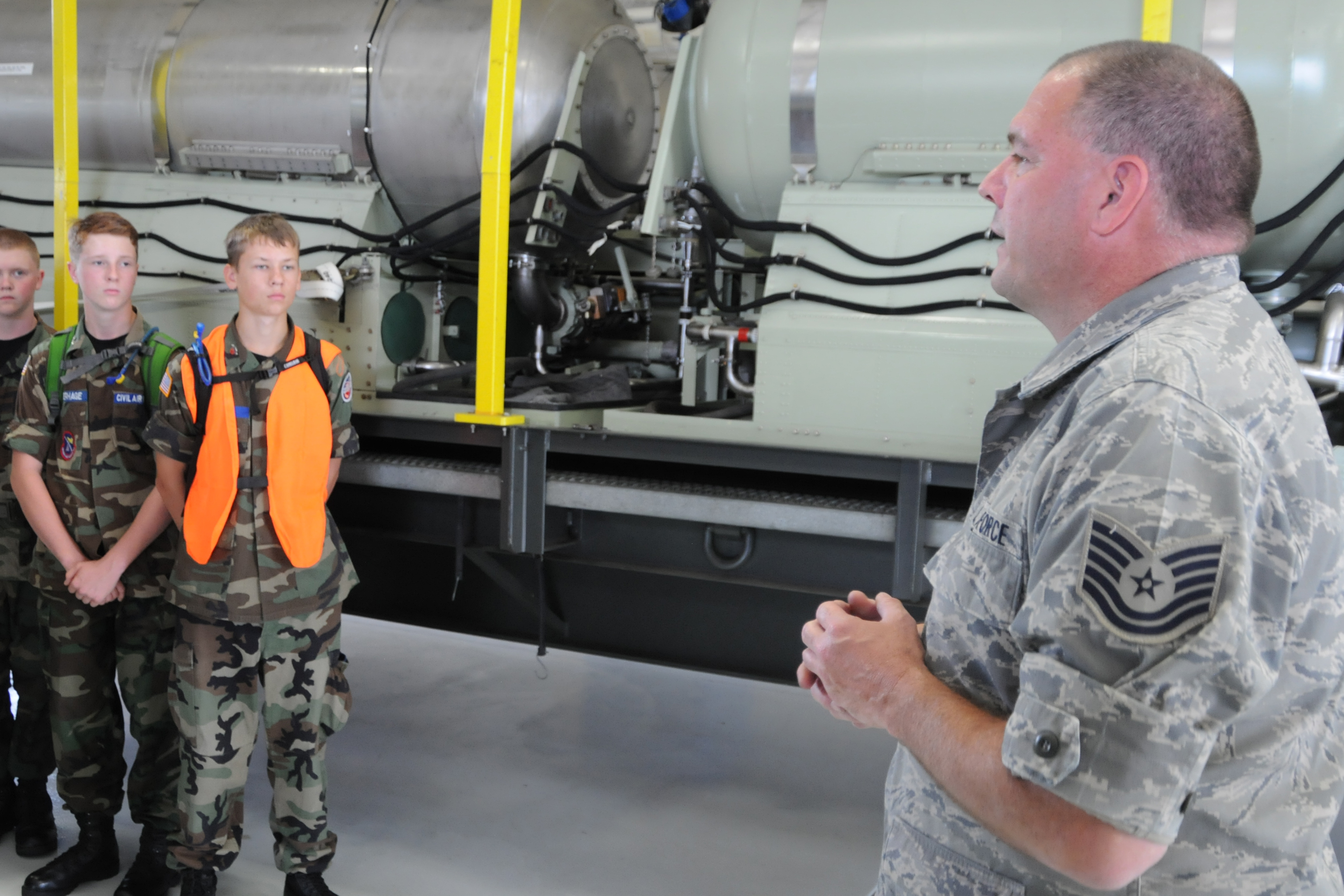 YOUNGSTOWN AIR RESERVE STATION, Ohio--Air Force Reserve Technical Sgt. Mike Lamantia explains the C-130 Modular Aerial Spray System (MASS) to a group of Civil Air Patrol cadets here, July 31, 2013. The Civil Air Patrol toured the base on Wednesday, visiting the aerial spray shop as well as avionics, propulsion and the Navy and Marine Corps Reserve Center. Lamantia is a 910th Aerial Spray Maintenance Technician here. YARS is home to the Department of Defense’s only large-area fixed-wing aerial spray capability. (U.S. Air Force photo by Technical Sergeant James Brock)